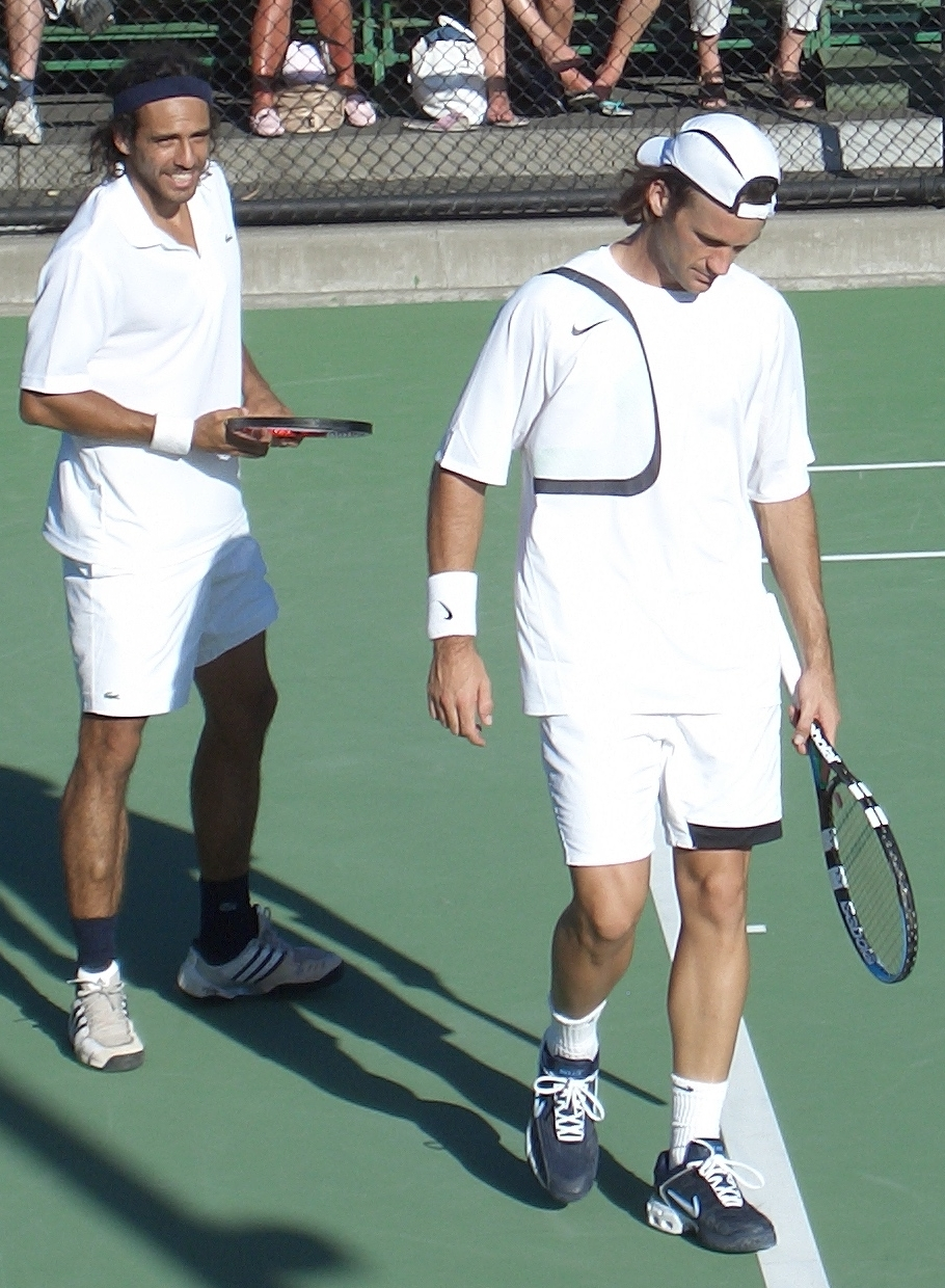 Mariano Zabaleta (left) and Carlos Moya during their doubles match at the 2006 Australian Open.